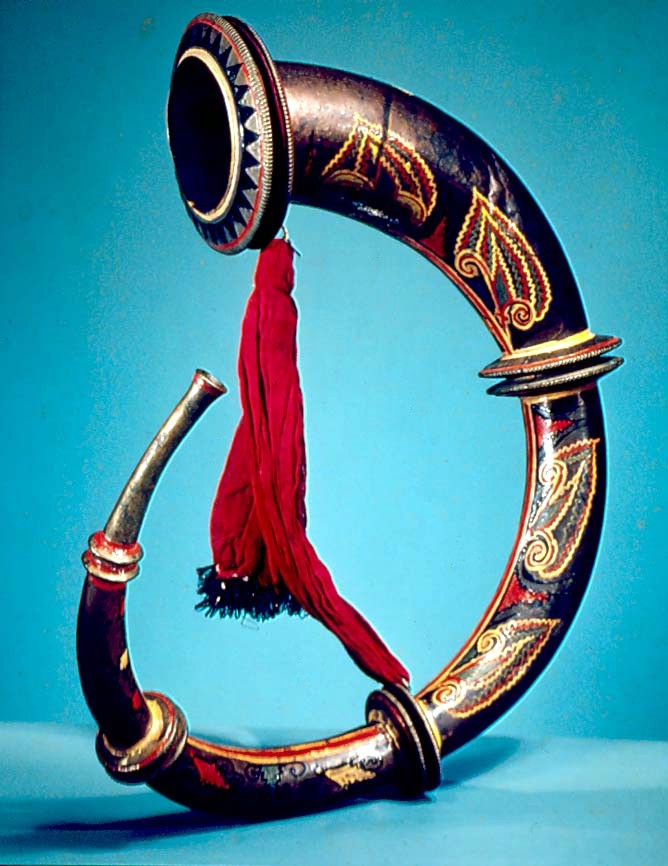 Indian; Ranasringa; Aerophone-Lip Vibrated-horn